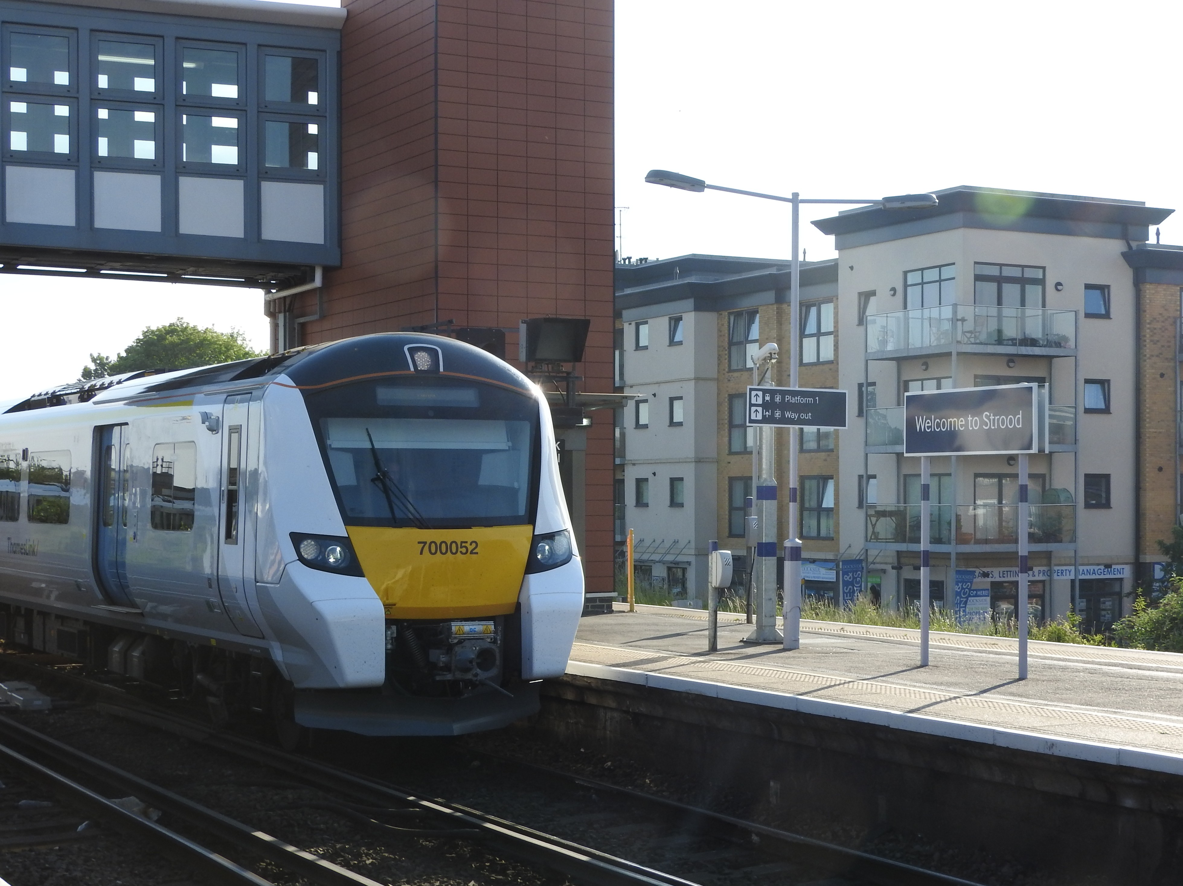 On 20 May 2018, Thameslink revised its routes and introduced a Luton- Rainham (Kent) route. On the Sunday no trains appeared, then on the Monday a limited service started. The trains were noticeably long. The first train to be photographed is 700052.